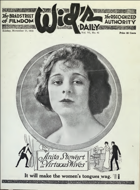 advertisement for Virtuous Wives, directed by George Loane Tucker